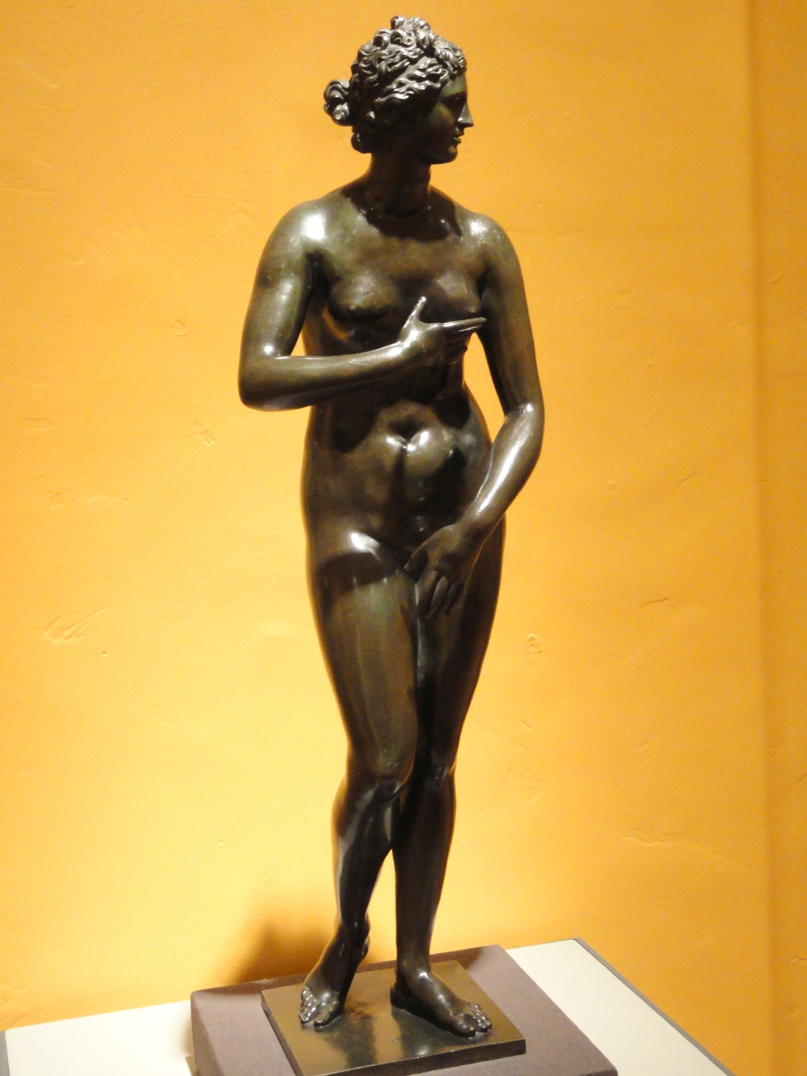 Exhibit in the Museum of Fine Arts, Springfield, Massachusetts, USA. This artwork is old enough so that it is in the public domain.